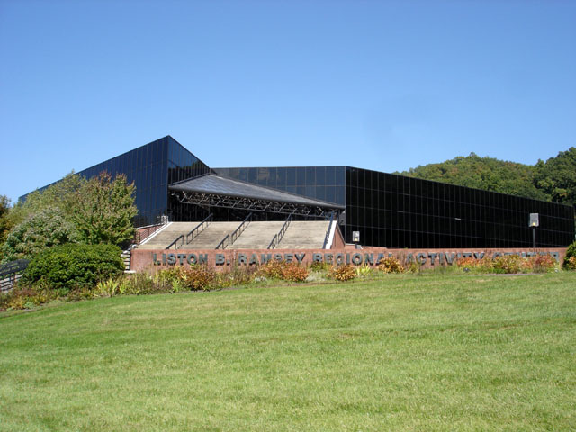 The Ramsey Regional Activity Center in Cullowhee, NC. Picture by Matt Johnson. October 1, 2006.